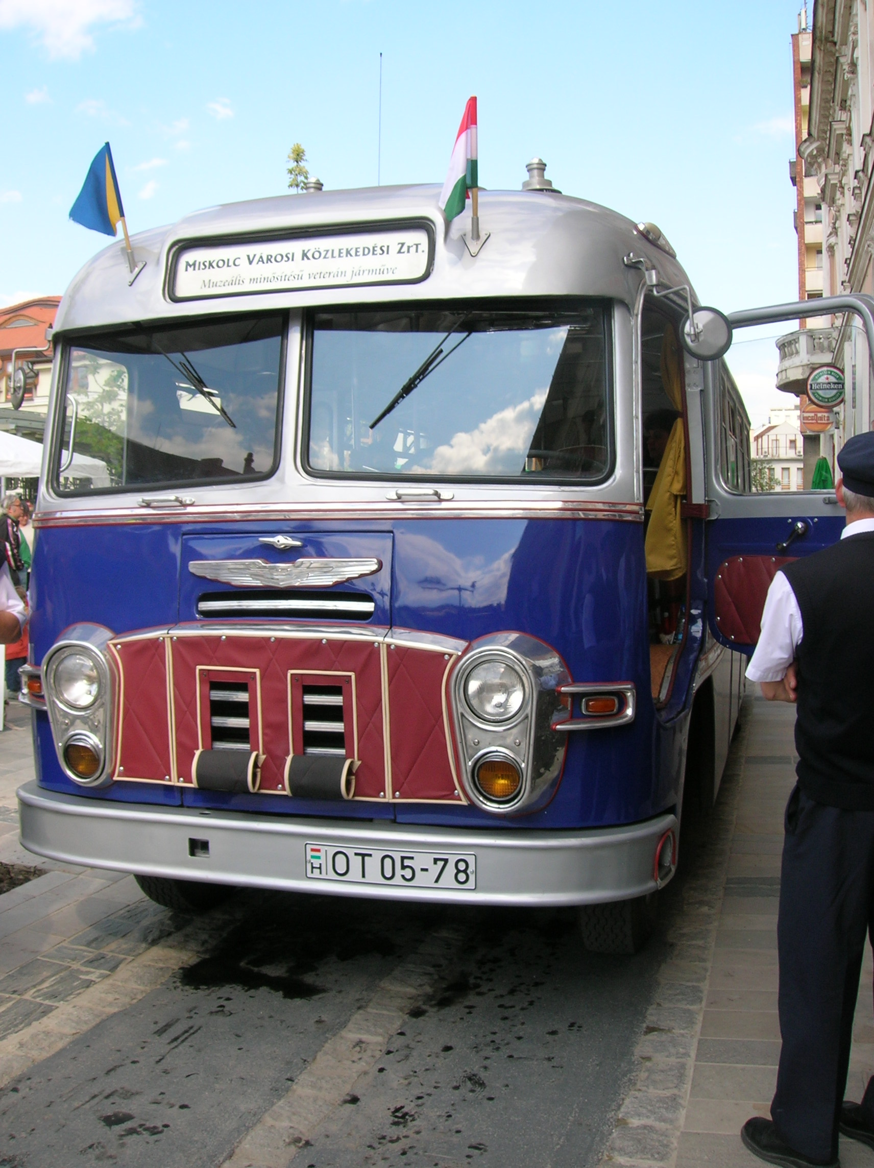 Ikarus 31, restored museum piece, built in 1959. Miskolc, Hungary.